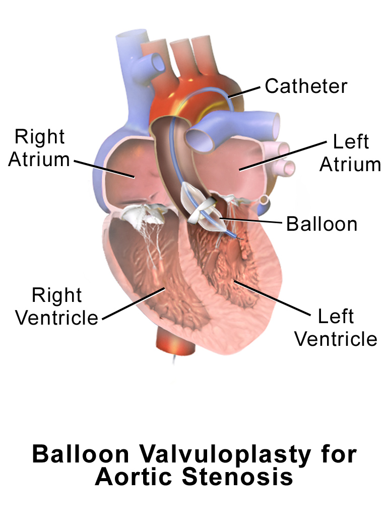 A medical illustration depicting valvuloplasty aortic.